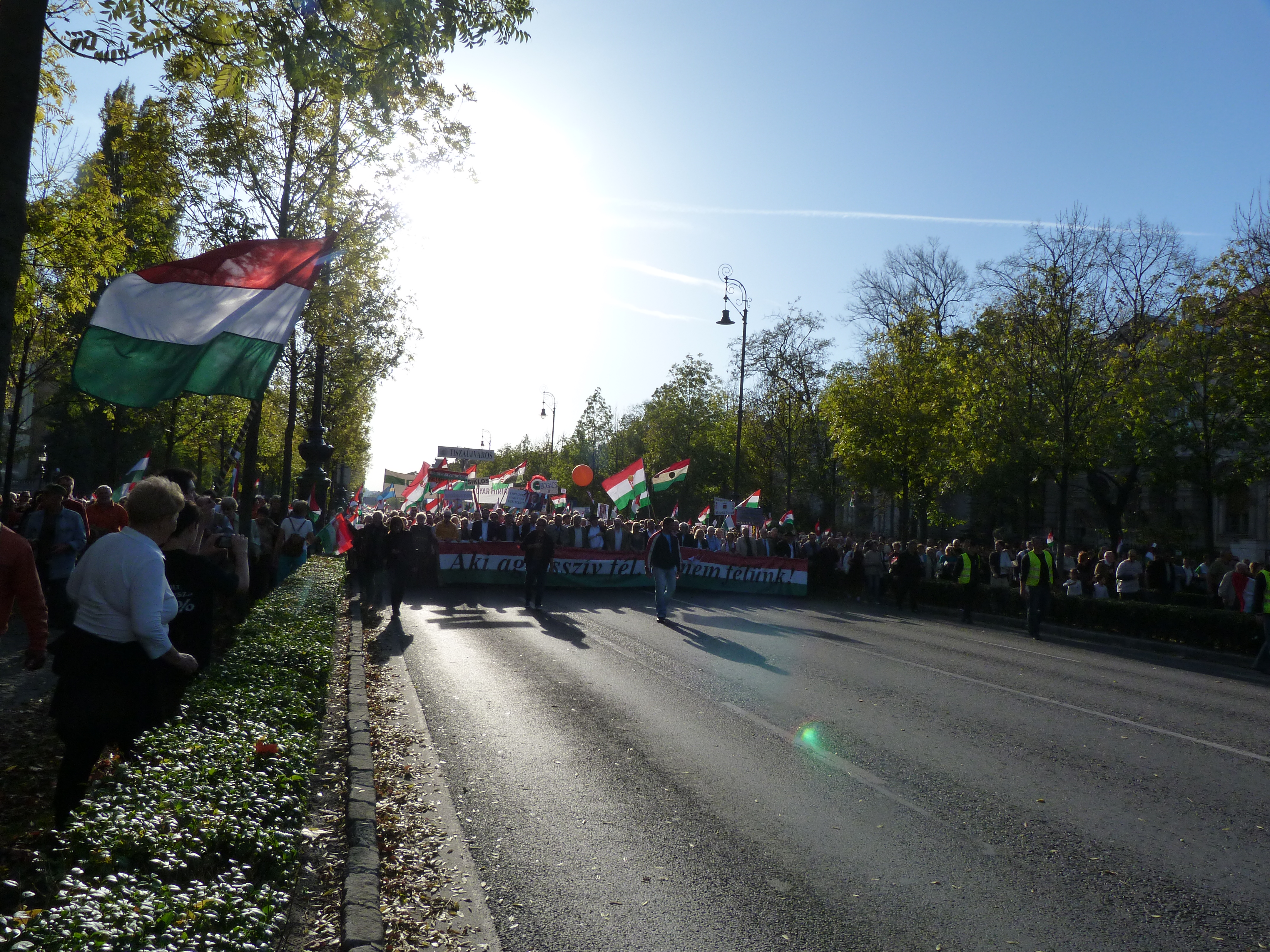 Live on the 23rd of October, 2013. Budapest downtown. The 3rd Peace March for Hungary. Budapest Andrássy út – körút – Oktogon – Andrássy út (Terror Háza) – Körönd – Hősök tere. Pro-goverment demonstration. Sourches: Civil Összefogás Fórum Sajtótájékoztató a 2013. október 23-ai Békemenetről Több százezren a Hősök terén ©© Derzsi Elekes Andor, Budapest, 2013, You are authorised to use these photos and vids under Creative Commons – even for commercial, for profit purposes. Photos must be attributed to Derzsi Elekes Andor. All of the photos and vids in the Metapolisz DVD line are under Creative Commons and can be used even for commercial – for profit – purposes. Recommended Citation Derzsi Elekes Andor: Metapolisz DVD line